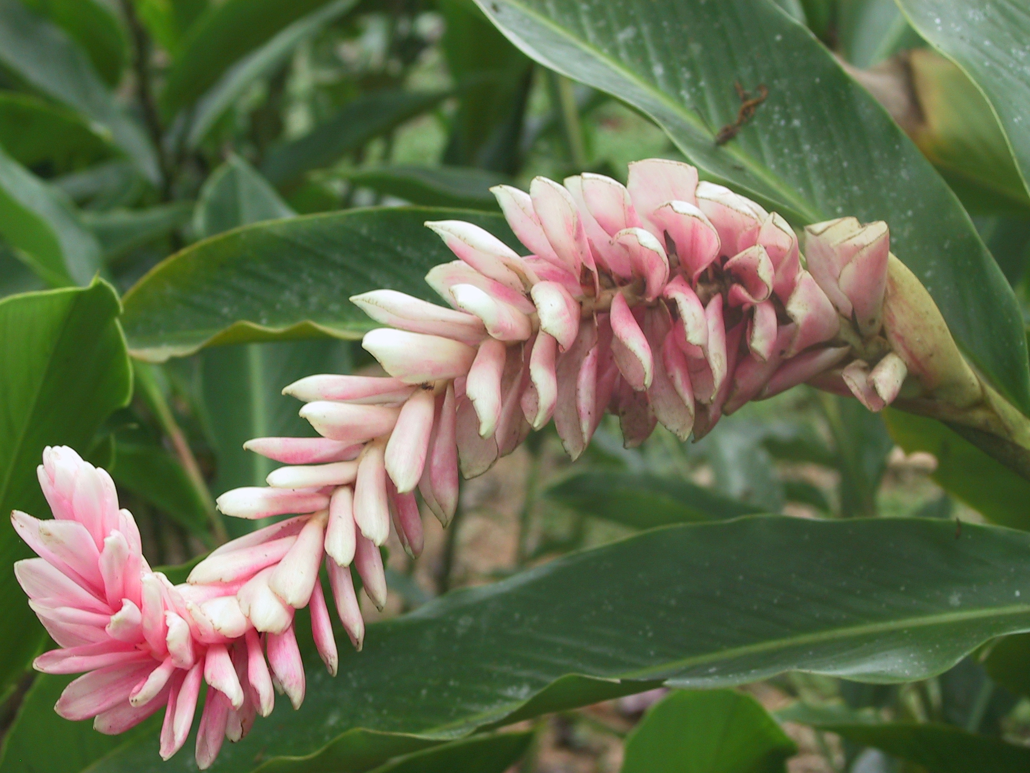 Description: Alpinia purpurata, var. pink, Costa Rica (beside a lodge, Atlantic area) Source: self made Date: 2002-11-03 Author = --Ruestz 09:16, 30 May 2006 (UTC) Pacific area